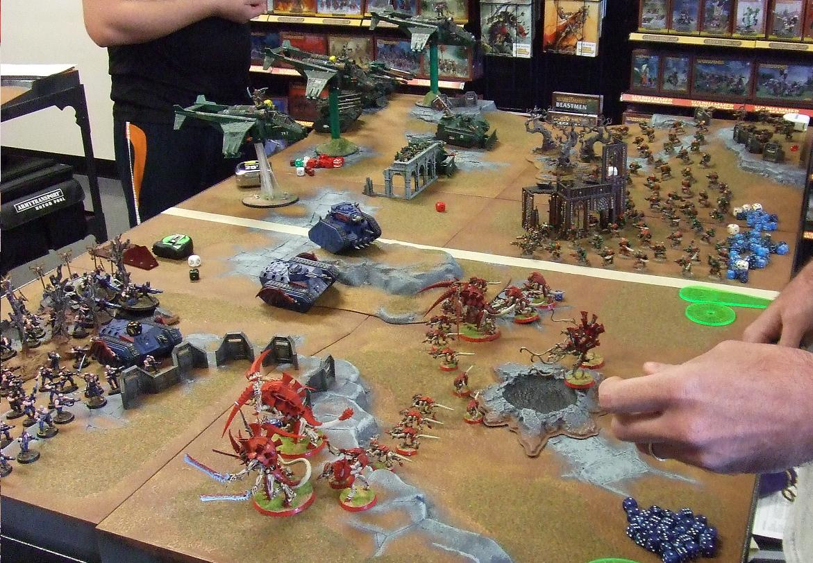 A match of Warhammer 40,000.